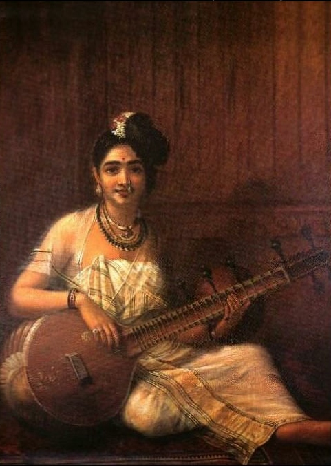 Portrait of a lady from Malabar playing the veena.